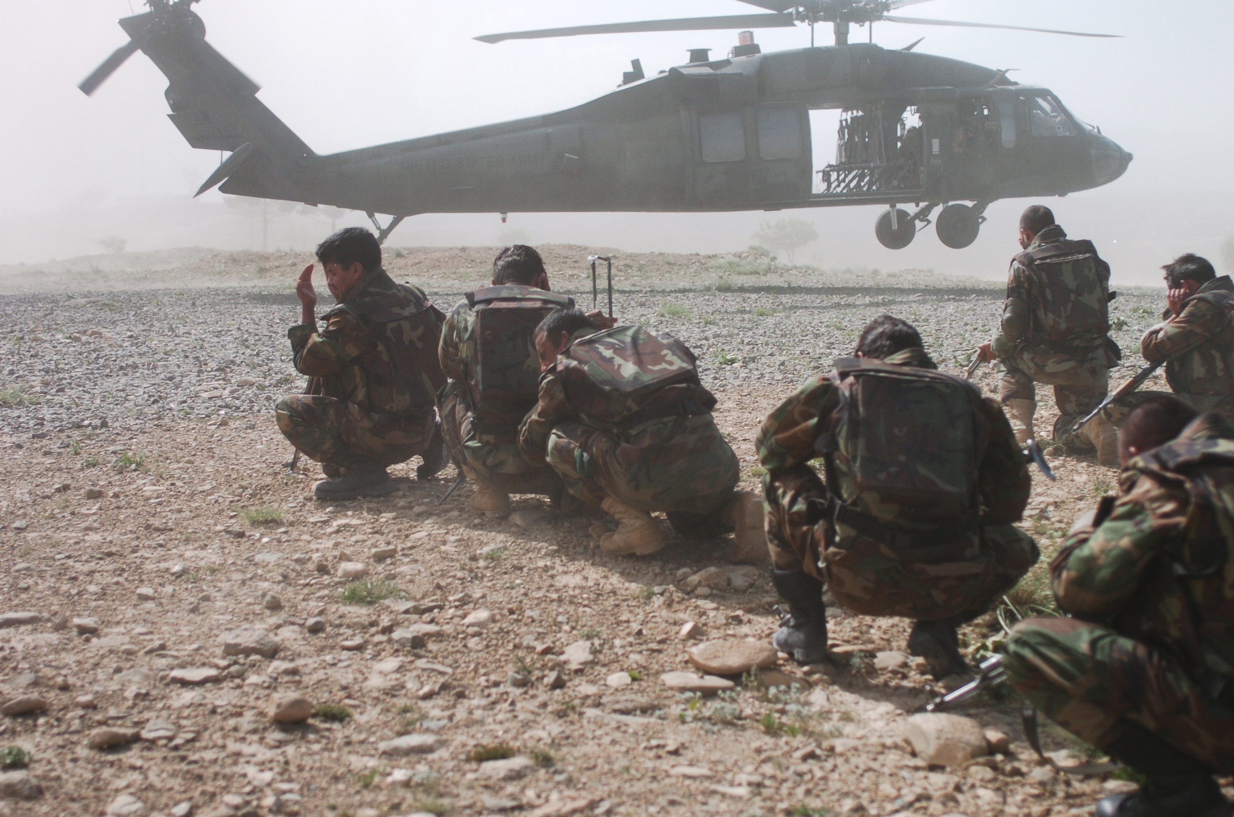 Afghan National Army soldiers preparing to board a UH-60 Black Hawk helicopter in Khost Province of Afghanistan, April 14, 2007. The soldiers are undergoing training on how to conduct air assault missions. DoD photo # 070414-A-7953G-047 by Staff Sgt. Joshua Gipe, U.S. Army. (Released)